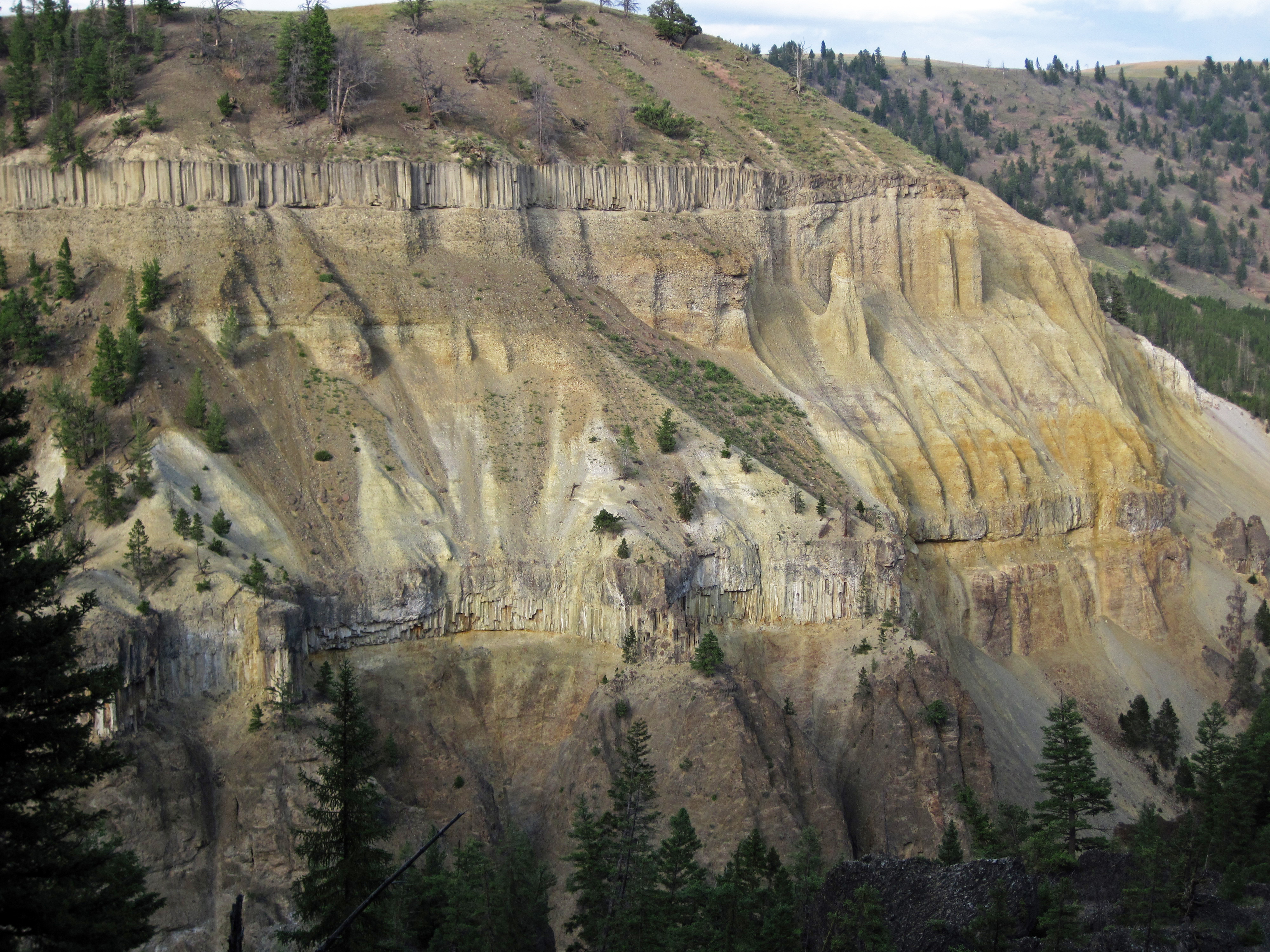 Columnar-jointed basalt lava flows in the Pleistocene of Wyoming, USA. The two horizons with closely-spaced vertical fractures shown above are 1.5 to 1.6 million year old basalt lava flows exposed along the eastern walls of the Narrows of the Yellowstone River in Yellowstone National Park. Basalt is a mafic (dark-colored), aphanitic (finely-crystalline), extrusive igneous rock composed principally of plagioclase feldspar and pyroxene. Upon cooling and slight contraction, many basalt lava flows develop closely-spaced subvertical fractures called columnar jointing. The fractures define columns having (usually) pentagonal to hexagonal transverse cross-sections. Below the lower lava flow is a conglomerate unit having clasts of volcanic lithologies. The conglomerate is part of the Sepulcher Formation (Washburn Group, Absaroka Volcanic Supergroup, Eocene). The volcanism represented by the Sepulcher Formation is unrelated to & much older than Yellowstone Hotspot volcanism. Between the upper and lower lava flows is a Pleistocene glacial outwash unit, deposited during a glacier's melting phase. Above the upper lava flow is Pleistocene till, which is a poorly-sorted, non-bedded glacial deposit formed during a glacier's advancing phase. Stratigraphy: Narrows Basalt, Lower Pleistocene, 1.5-1.6 Ma Locality: Narrows of the Yellowstone River, just north-northeast of Tower Falls, northeastern Yellowstone National Park, Wyoming, USA (44° 53' 52.31" North, 110° 23' 07.47" West)